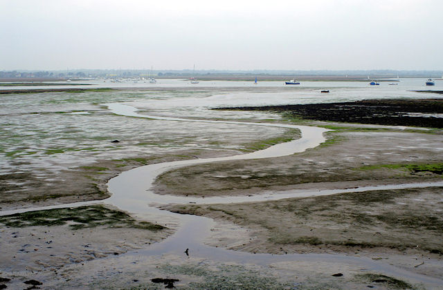 Mudflats, Hurst Spit